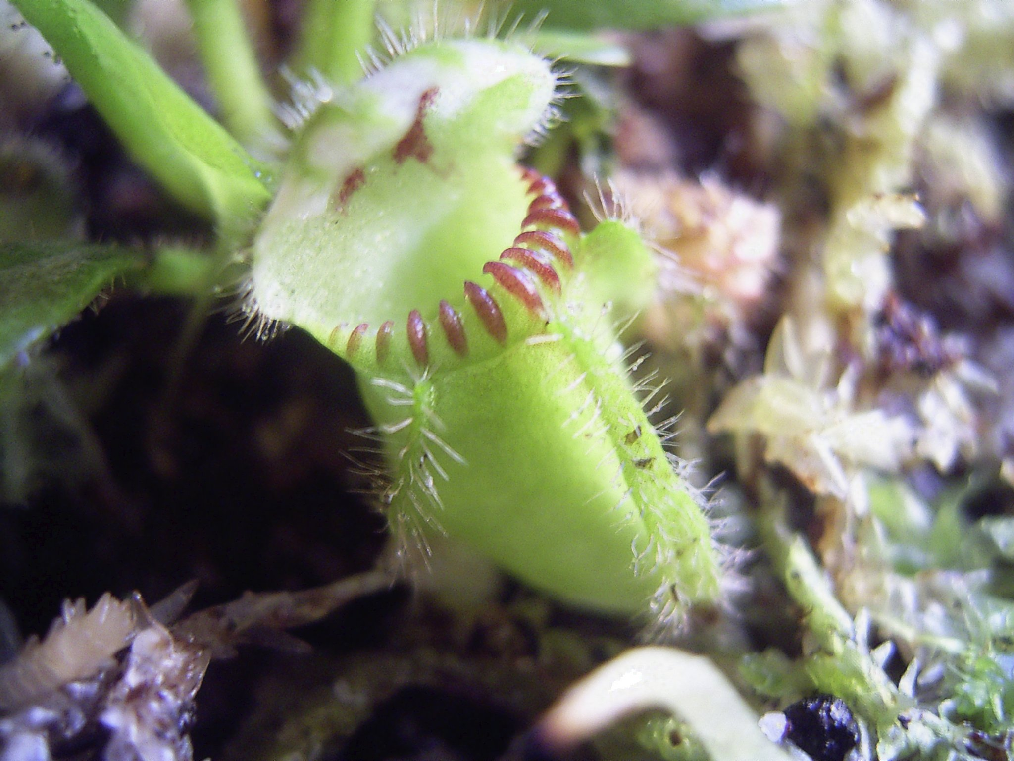 CephalotusFollicularis Author: Denis Barthel